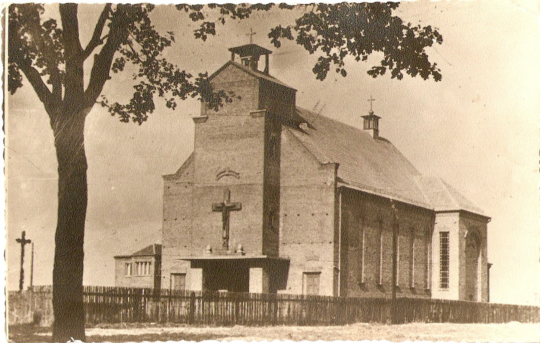 cathedral amid Strzebin (1952)